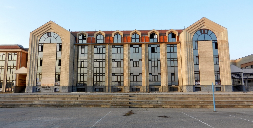 Grammar School Kragujevac, author Veroljub Atanasijevic Architect 1997